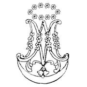 Emblem of the congregation of Missionaries of the Immaculate Conception, religious congregation founded 1850 by Alphonse Cavin; scanned from a periodical, 1904. Consists of "Ave Maria" monogram beneath crown of flowers and above crescent.